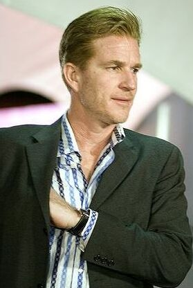 Matthew Modine at the Tribeca Film Festival